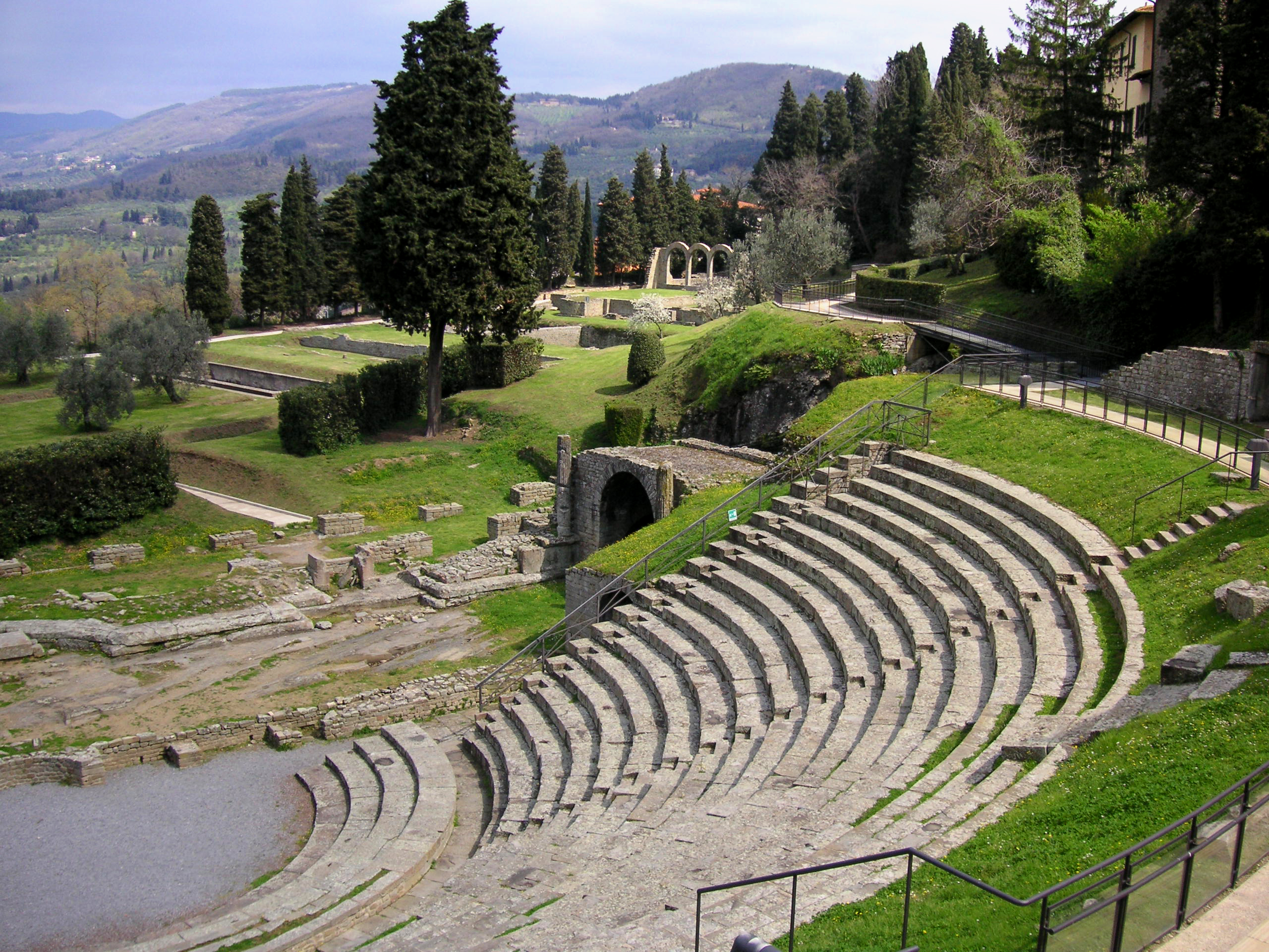 Roman theater in Fiesole, Italy